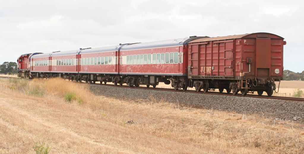 D van trailing a V/Line passenger service in Grovedale, Victoria, Australia